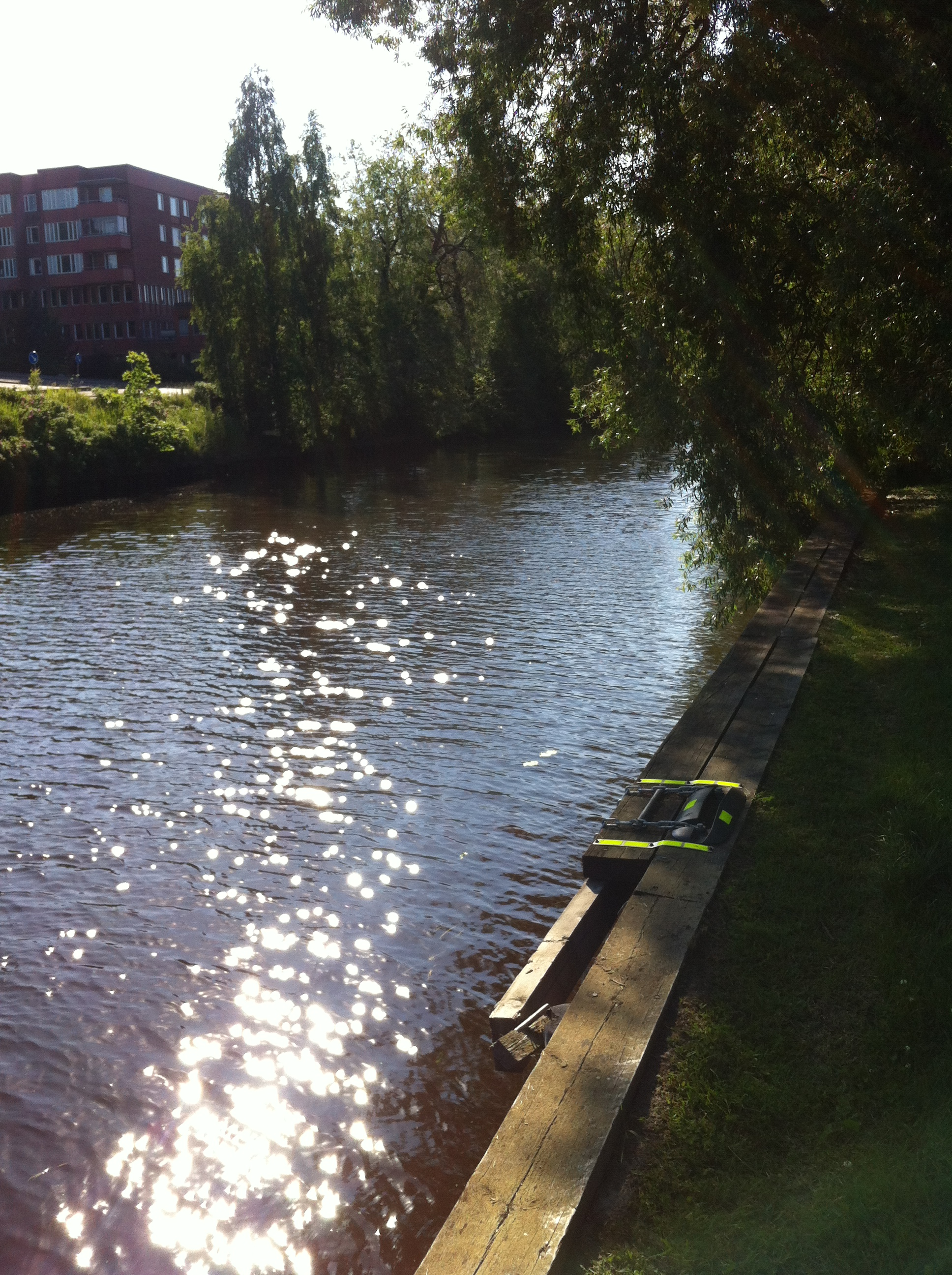 Selångersån river in central Sundsvall, Sweden.